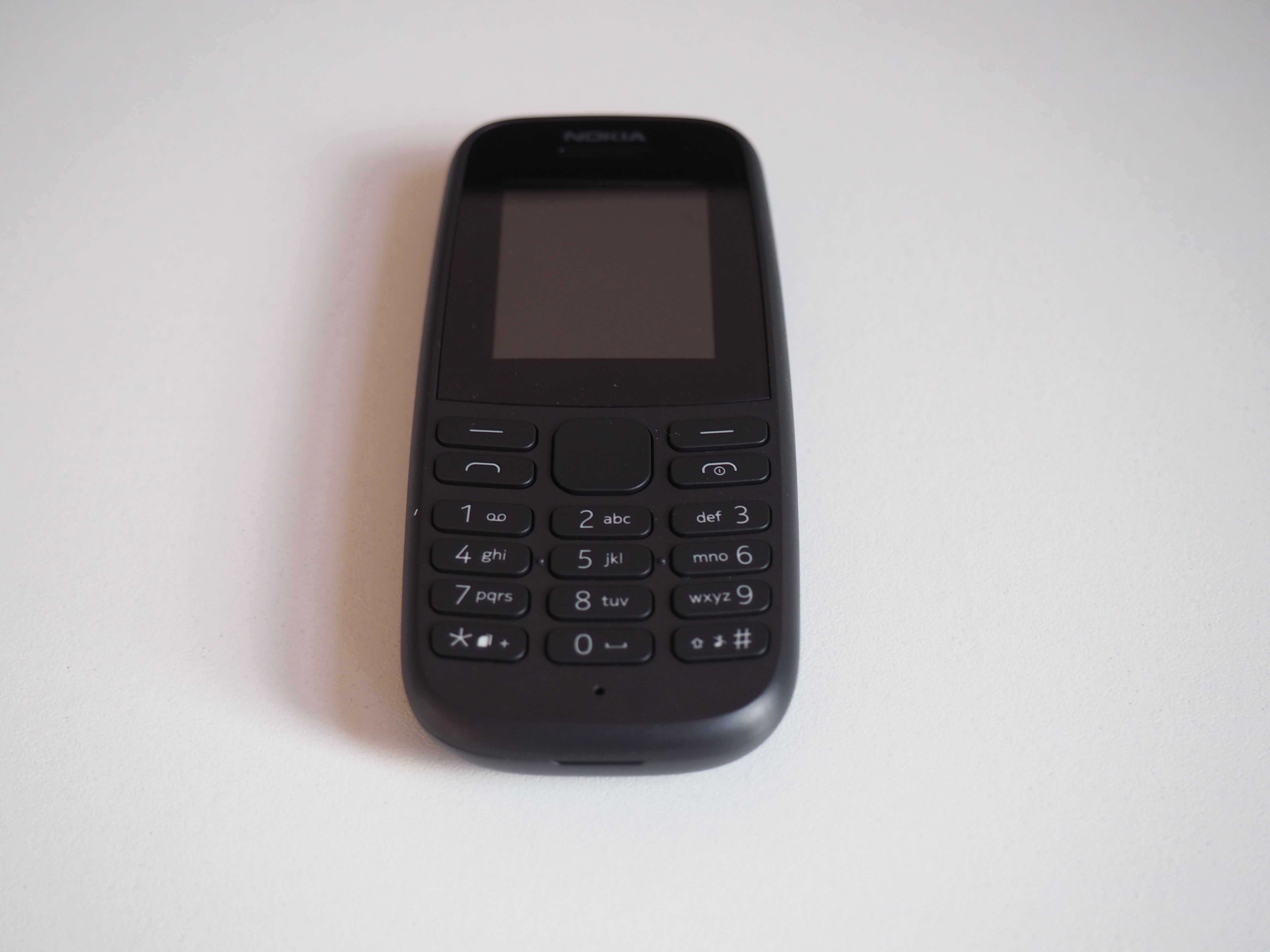 A picture of the front of the 2019 version of the Nokia 105 feature phone. Also known as the Nokia 105 Neo.